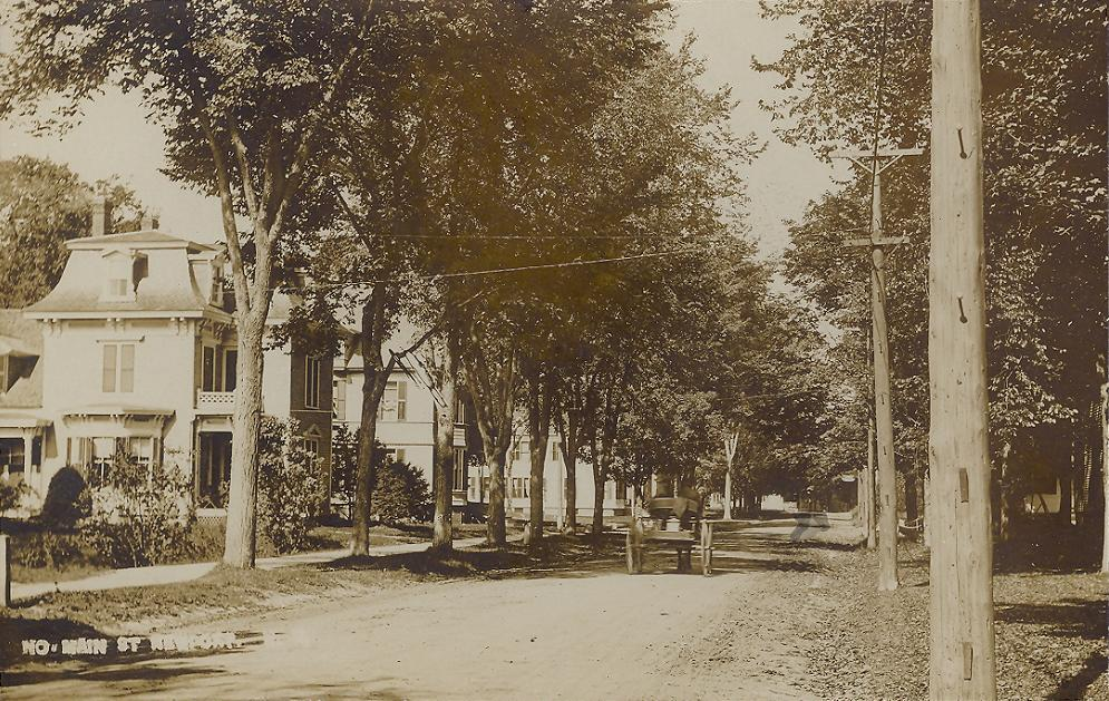 North Main Street, Newport, New Hampshire